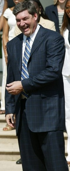 Professional basketball player and coach Bill Laimbeer at the White House in 2004 on the occasion of the celebration by George W. Bush of the Detroit Shock's winning the 2003 Women's National Basketball Association Finals.